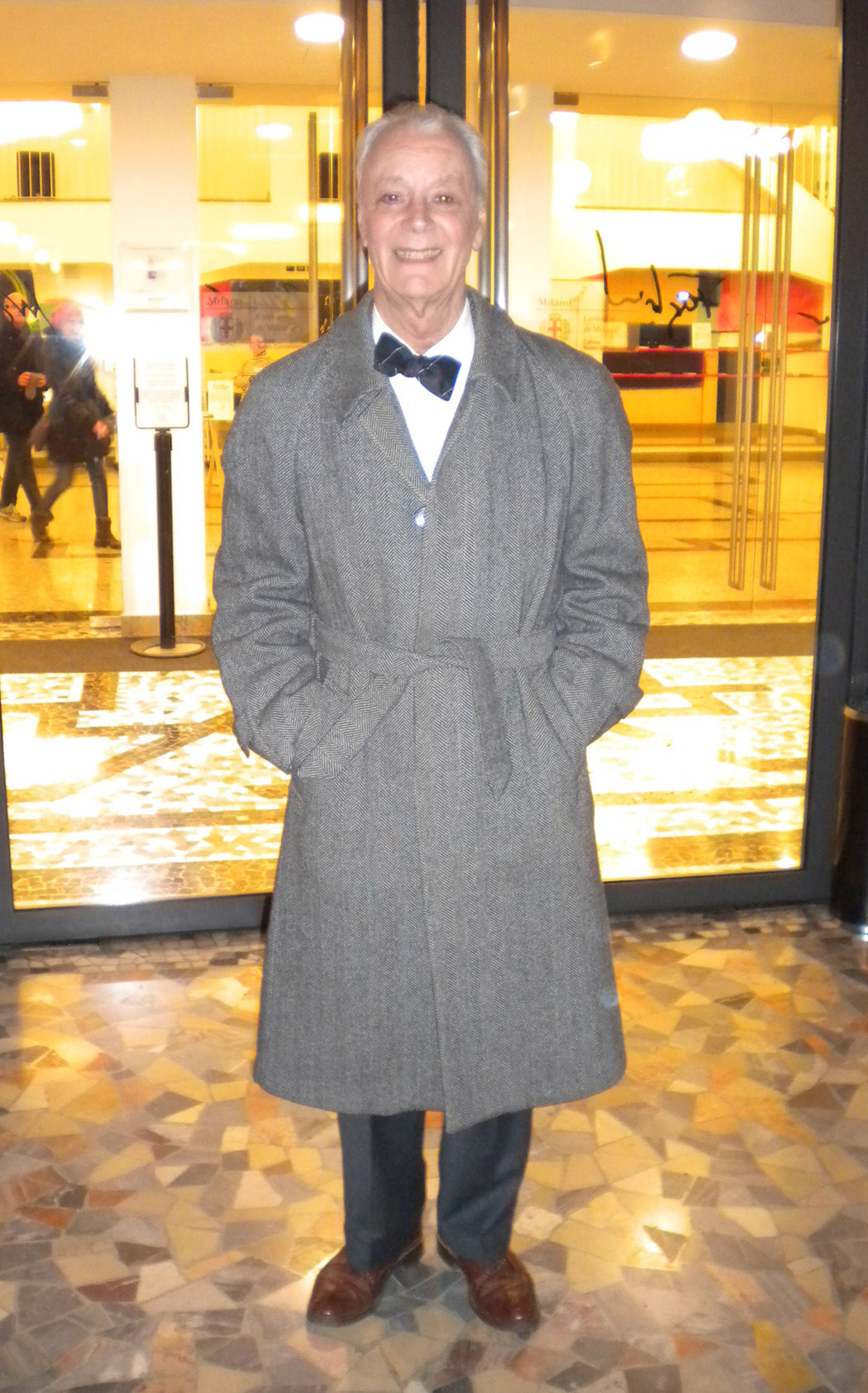 Actor Paolo Poli, in Milan, at Teatro dell'Elfo